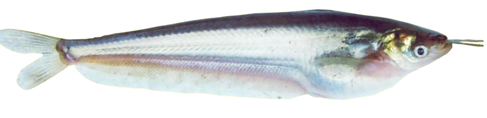 A fresh water fish species from Adan river of Painganga basin from the Gadchiroli district of Maharashtra state India.